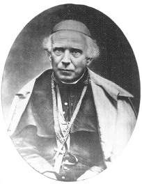 Zygmunt Szczęsny Feliński